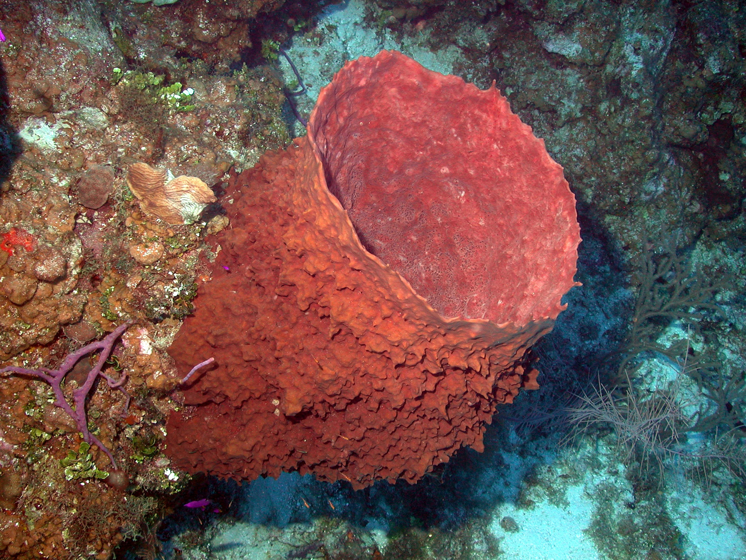 Xestospongia muta, the barrel sponge, may live for 100 years and grow to over 6 feet tall. While populations have declined at sites throughout the Caribbean, they appear to be quite healthy on Little Cayman Island. Caribbean Sea, Cayman Islands.